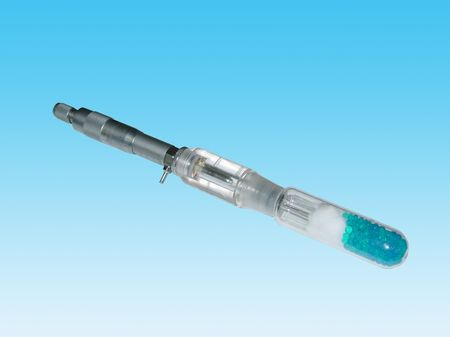 Hanging Mercury Drop Electrode with salt bridge.